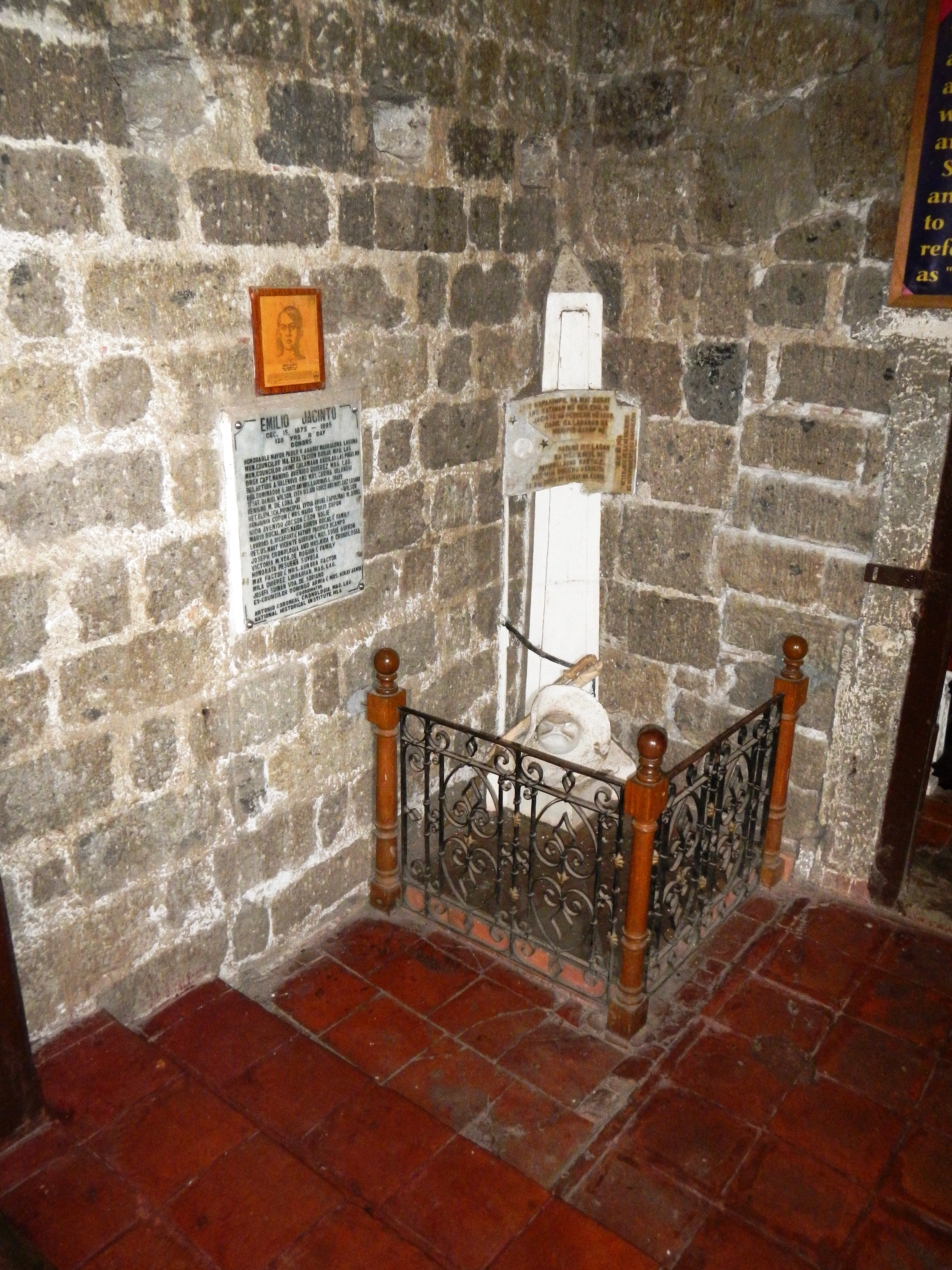 UploadWizard photos --- (general description of landmarks, heritage, culture, comprehensive, photography) of – the famous - Santa Maria Magdalena Parish Church of Magdalena -Magdalena, Laguna[1] - Saint Mary Magdalene Parish Church of Magdalena - constructed in 1851-1871, made of stones and bricks with a sandstone facade located at the town center or plaza, across the municipal town hall of Magdalena.[2] [3] [4] [5] -- belongs tp the -- Roman Catholic Diocese of San Pablo[6] - Vicariate of San Bartolome Apostol - Episcopal District III - The grave, tomb and historical marker, where the mortal remains of (In February 1898, after being wounded in a battle with the Spaniards at the Maimpis River, Philippine revolutionary hero) Emilio Jacinto [7] (sought refuge in this church. His bloodstains were found on the floor of the church.) are placed, this is at the foot of the stairs of Convent.– Magdalena, Laguna[8] - the heritage Magdalena Municipal Hall, the historic, famous Church, Offices, Plaza in Centro, downtown, a fourth class municipality in the province of Laguna, Philippines, the latest census, it has a population of 22,976.Places to Visit in Magdalena, Laguna [9] Coordinates: 14°10'39"N 121°26'55"E [10] geographical location: Laguna, Region 4, Philippines, Asia geographical coordinates: 14° 11' 56" North, 121° 25' 46" East.[11].